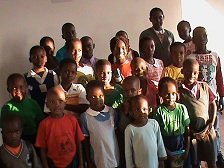 Shows pupils who use the community library